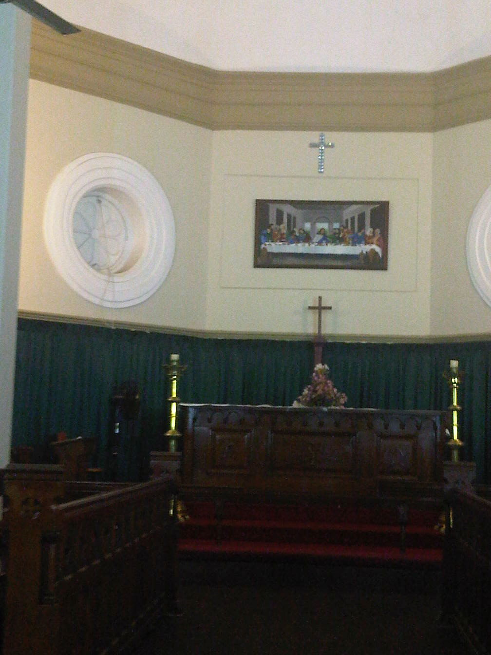 The altar at St.Paul's Church, Milagiriya. St.Paul's Church is one of the oldest churches in Sri Lanka.